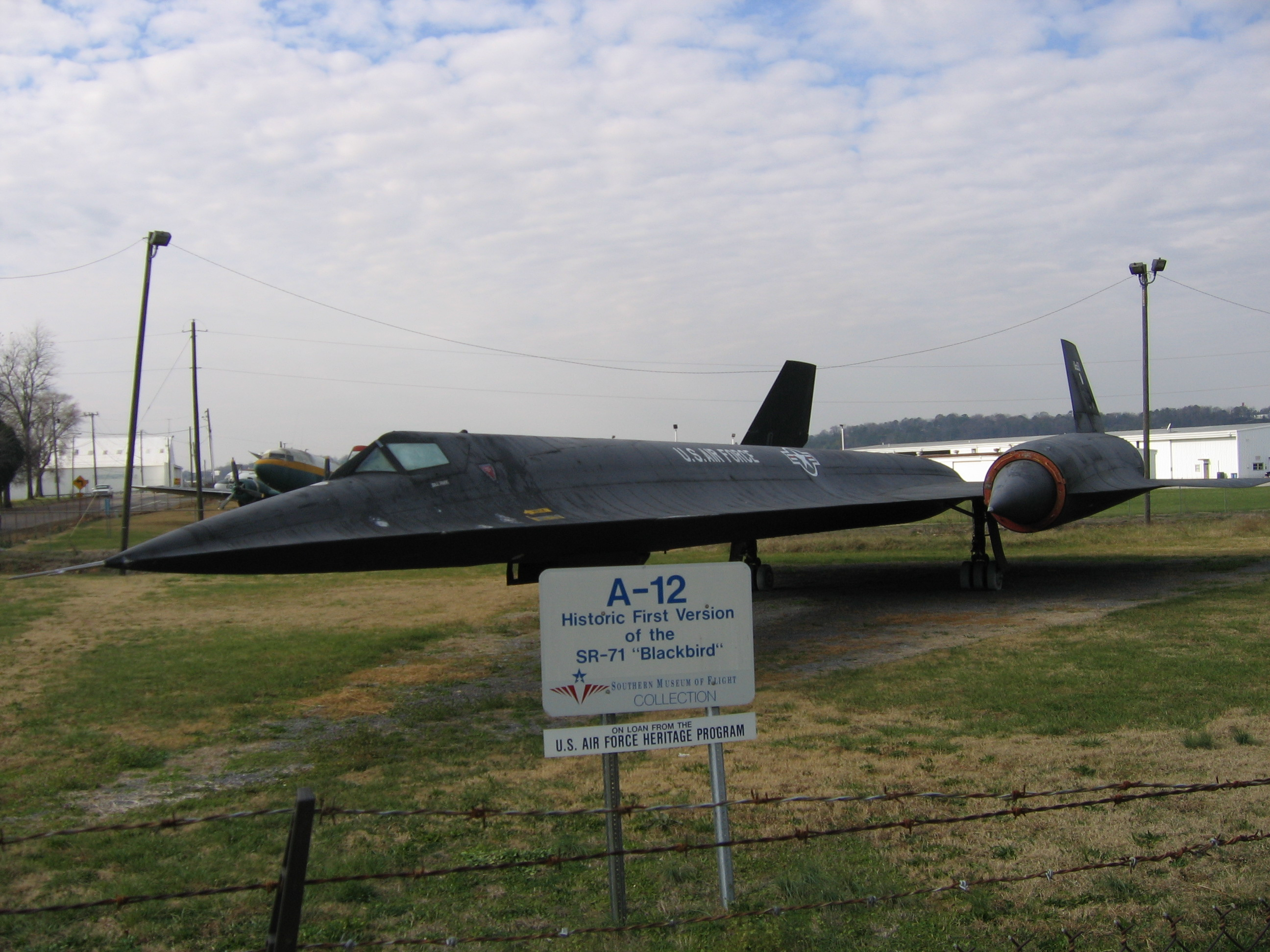 Blackbird, Southern Museum of Flight, Birmingham, A-12 Historic First Version of the SR 71 Blackbird